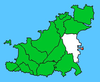 Map basis: Civil Parish Map of Guernesey. Parish of Saint Peter Port is white. Cornet Rock (Castle Cornet) within Saint Peter Port is red.